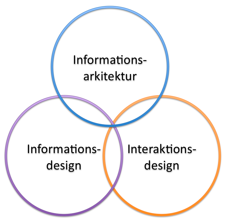 A conceptual image of how the three disciplines Information Architectur, Information design and Interaction design collaborates.